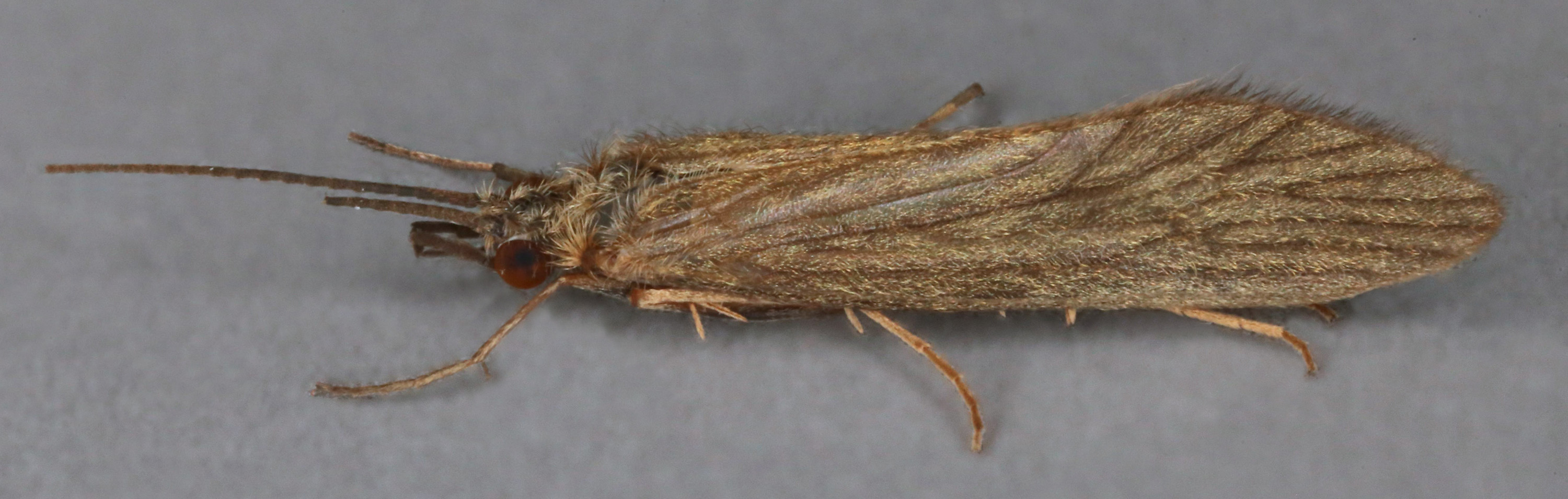 Tinodes waeneri, Bala lakeshore, North Wales, July 2016 (1)